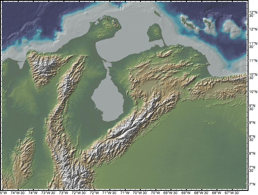 Topographic Map of Maracaibo Basin